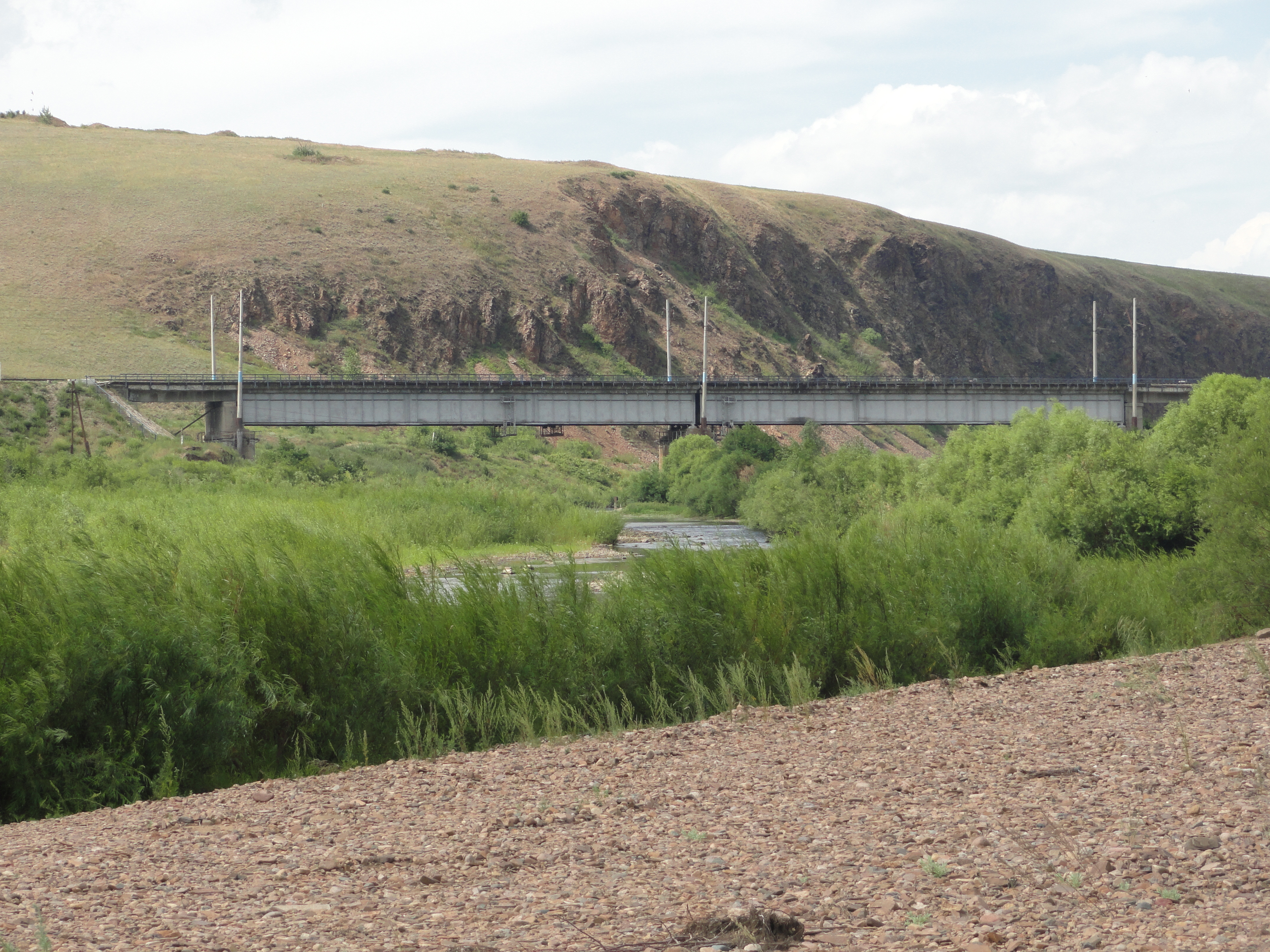 Жд строение